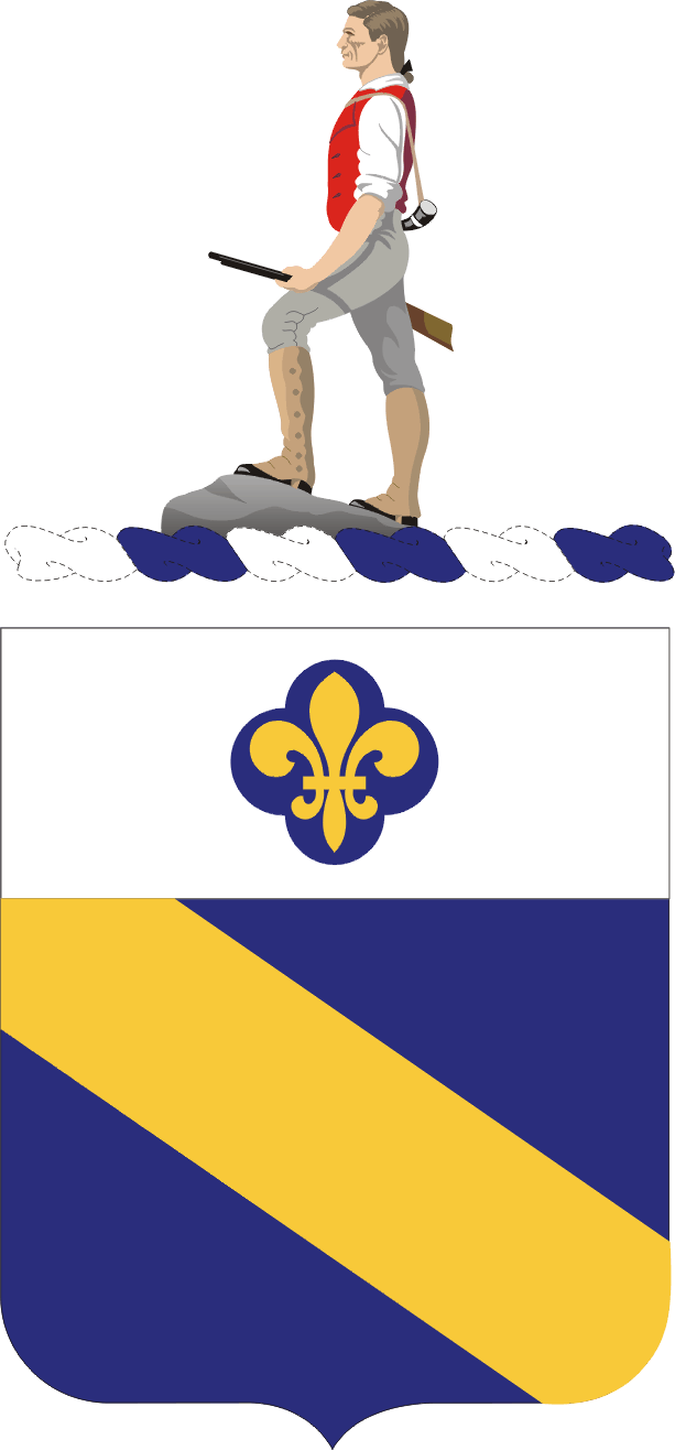 349th Regiment (Training)